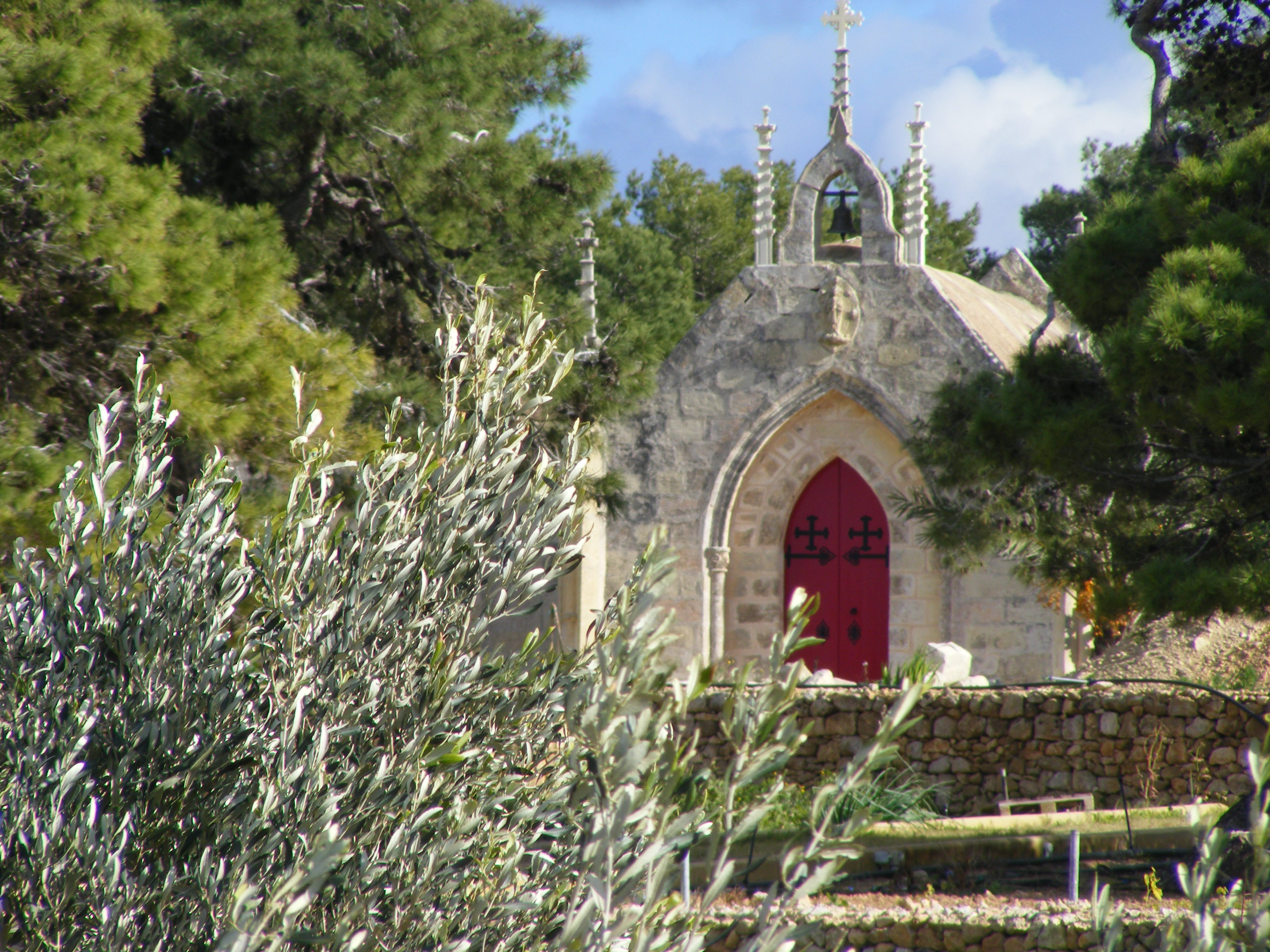 Chapel of St. Simon, Wardija, St. Paul's Bay, Malta